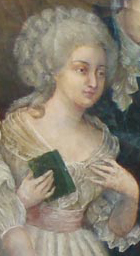 This portrait is a detail from a larger group portrait by an unknown painter of the 19th century. It shows Claudine Picardet (later Baronne Guyton de Morveau) standing, holding a book to symbolize her work as a translator. She is wearing a low-necked lacy white dress with a pink waist, and an elaborate greyish wig. Probable dates for the painting are between 1782 (when the group shown began working on nomenclature) and 1816 when Baron Guyton de Morveau (shown in the full painting) died.